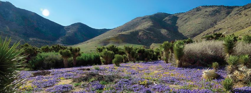 Kiavah Wilderness This wilderness encompasses the eroded hills, canyons and bajadas of the Scodie Mountains of the Sequoia National Forest - the southern extremity of the Sierra Nevada Mountains - and the desert lands managed by the Bureau of Land Management